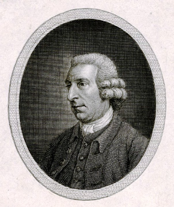 An engraving by John Hall for the title page of John Scott of Amwell's Poetical Works, 1782